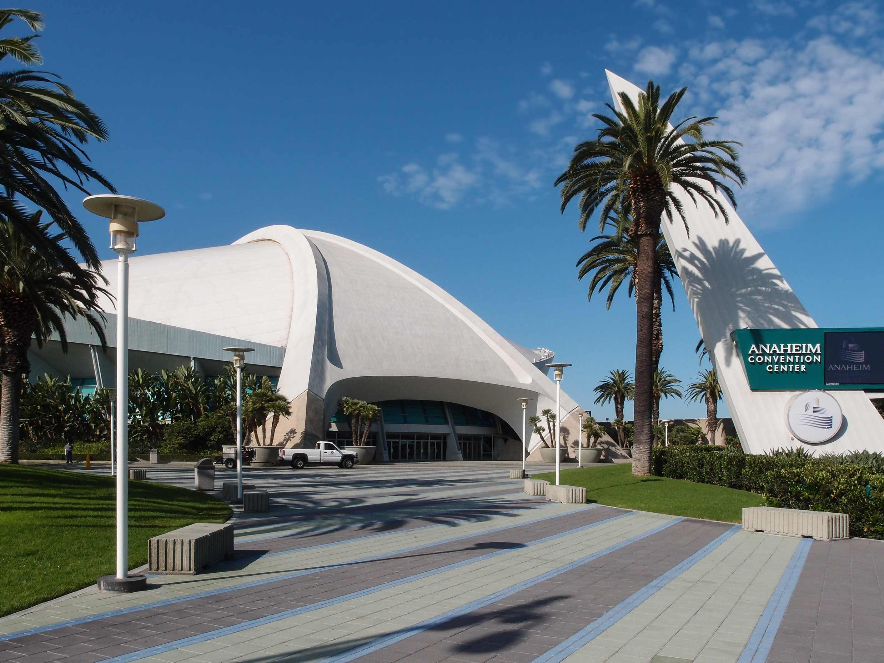 Anaheim Convention Center, front view